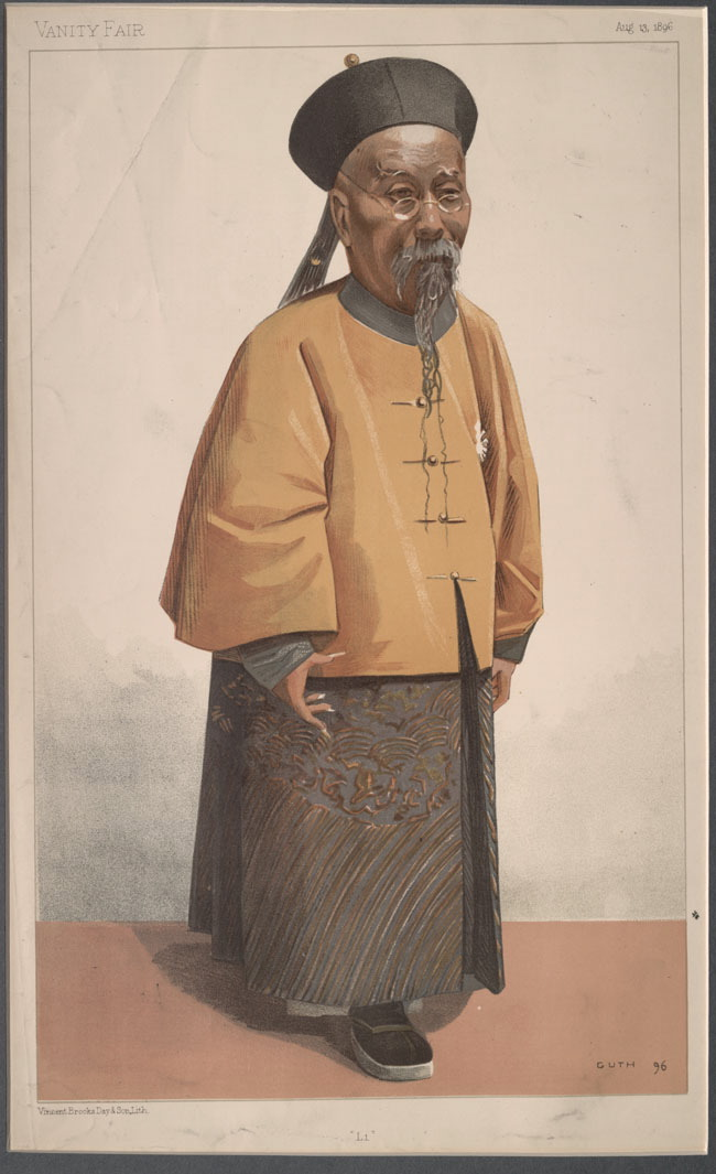 Men of the Day No.655: Caricature of The Viceroy of China. Caption reads: "Li"